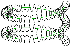 Picture from German Wikipedia.